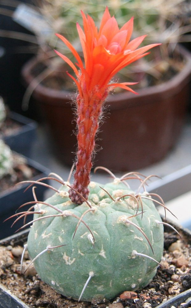 Matucana madisoniorum in Blüte